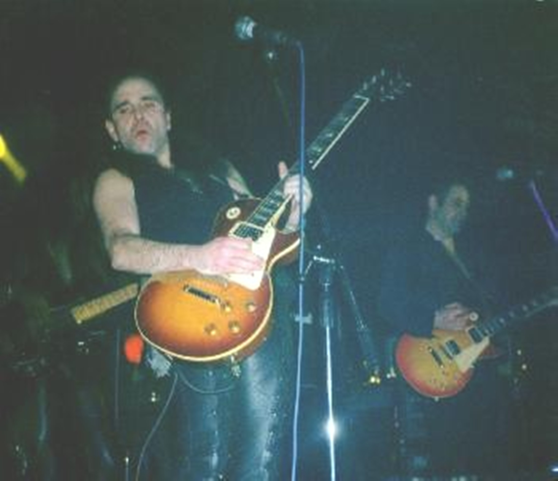 Brian Robertson of Thin Lizzy playing in a Thin Lizzy tribute band in Nottingham